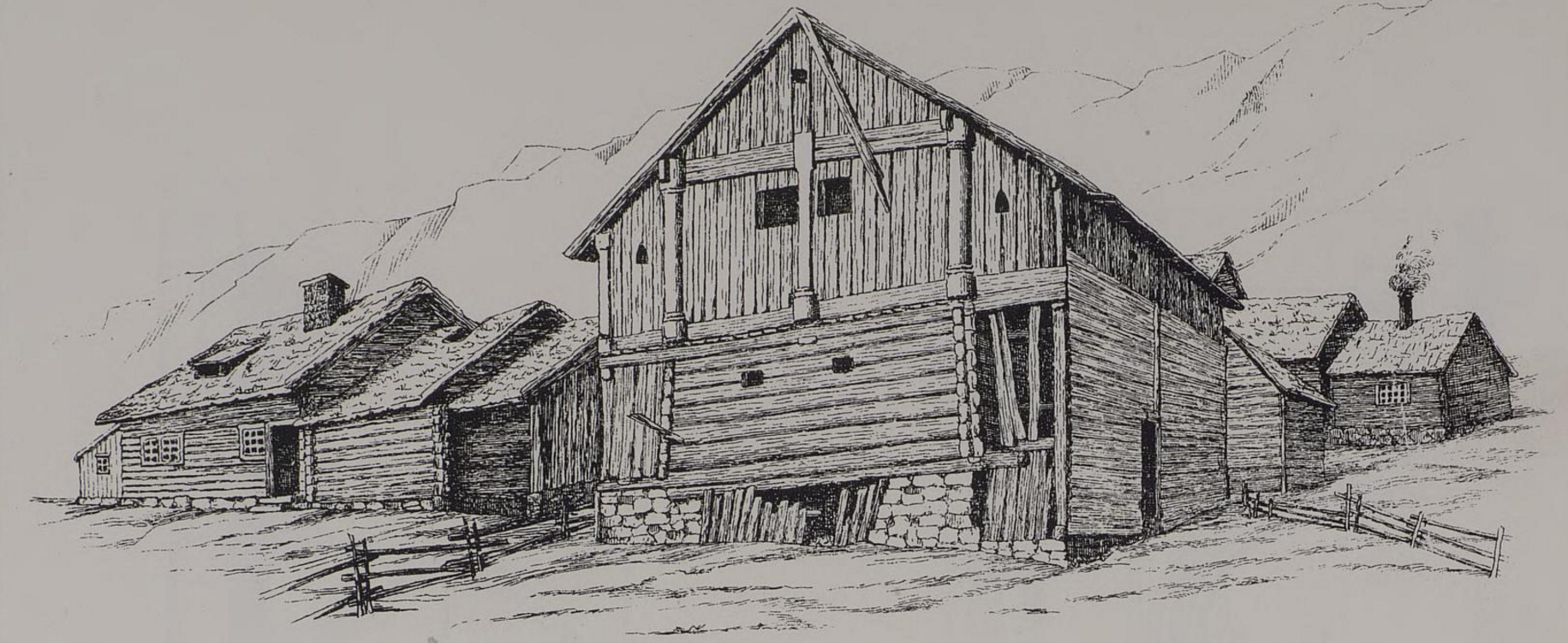 Lithograph of Finnesloftet in Voss, Norway, in 1888. Lithography: "M. Lyngs lith. Anstalt, Christiania". Based on watercolour by Peter Andreas Blix.